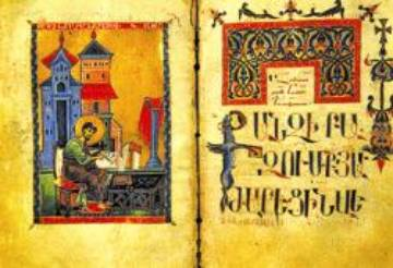 The evangelist portrait from the Gospel of Luke